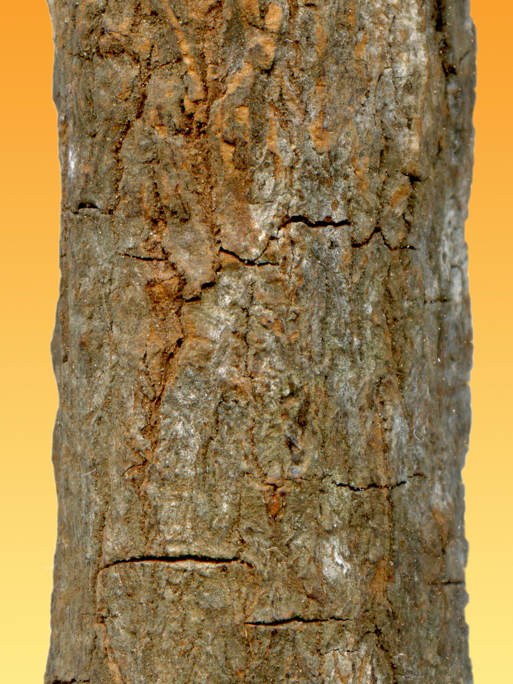 Cinchona officinalis, Rubiaceae, Quinine Bark, bark.